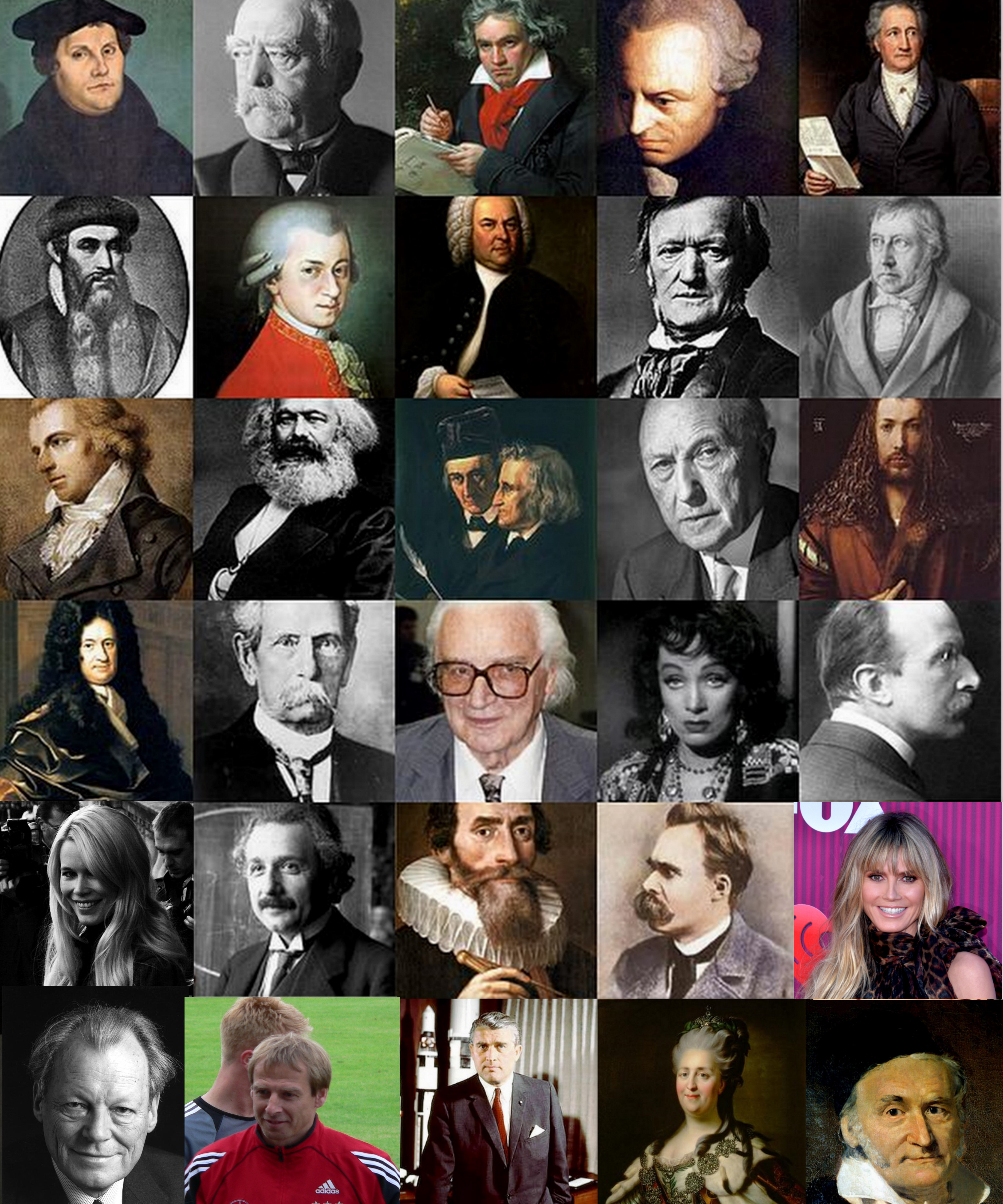 Collage of 30 famous Germans.